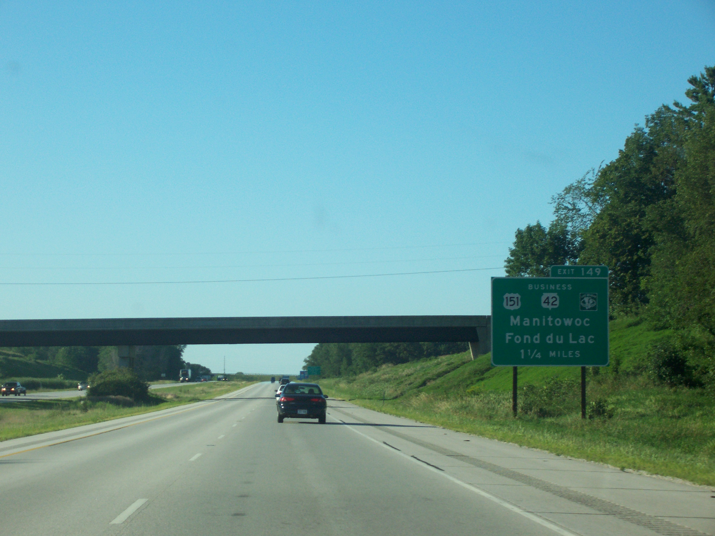 Travelling northbound on I-43 just south of Manitowoc, Wisconsin. This is the sign for the U.S. Highway 151 exit, and the exit for the Lake Michigan Circle Tour. Bridge carries Silver Creek Road across the highway. I took this image myself on August 12, 2006.